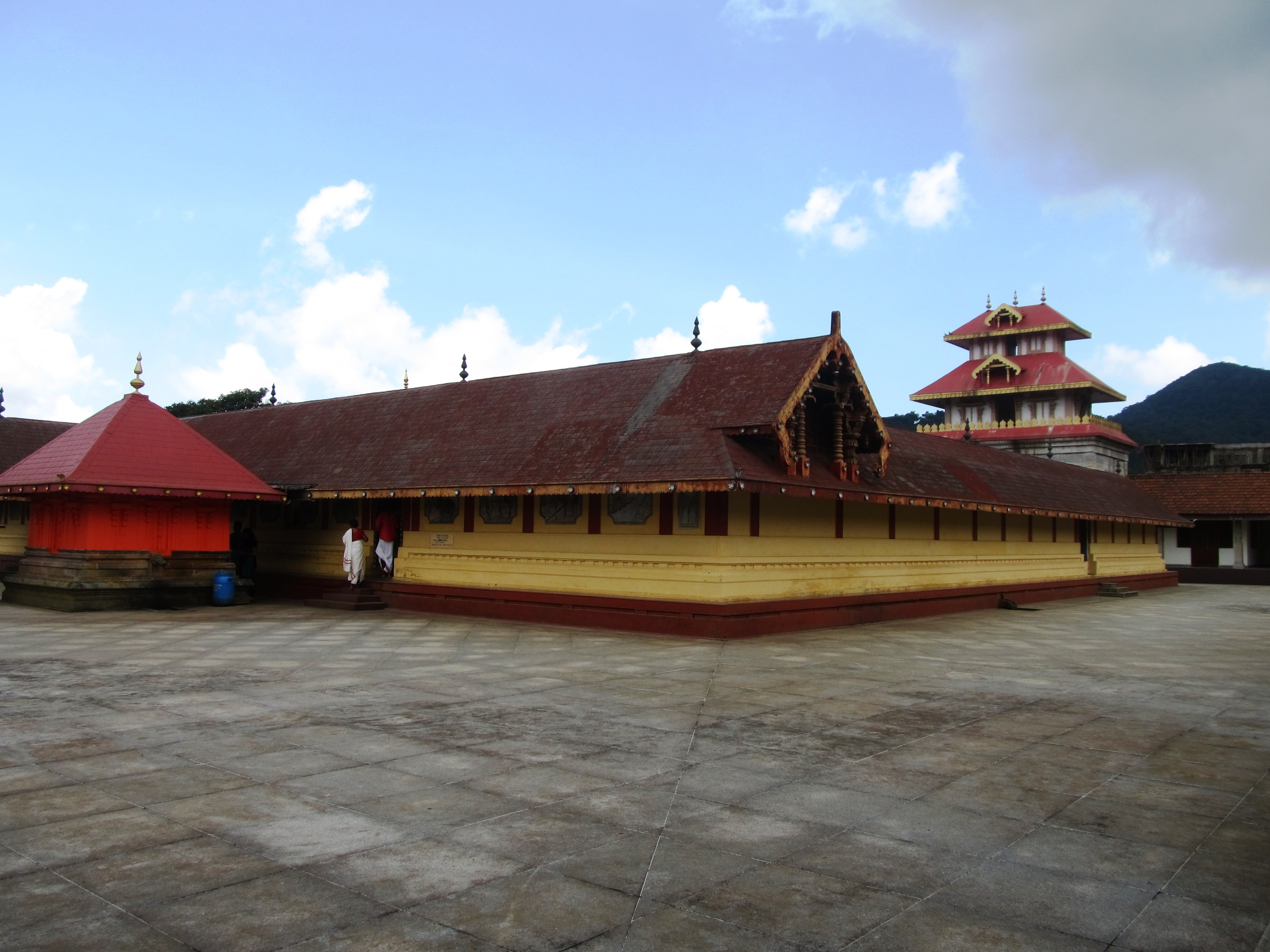 Bhagyamandala Temple signifies Keralian architecture